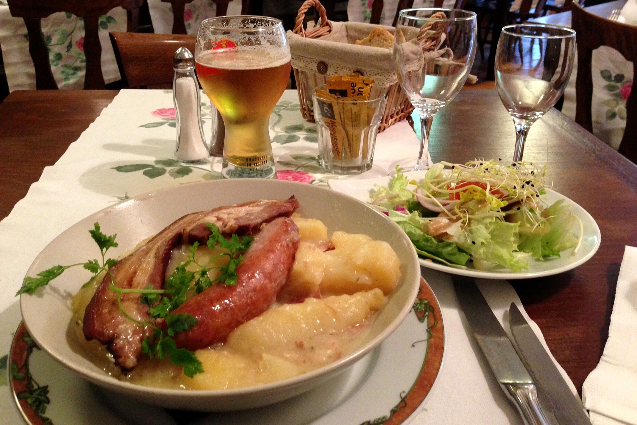 Typical plate in Ardennes country